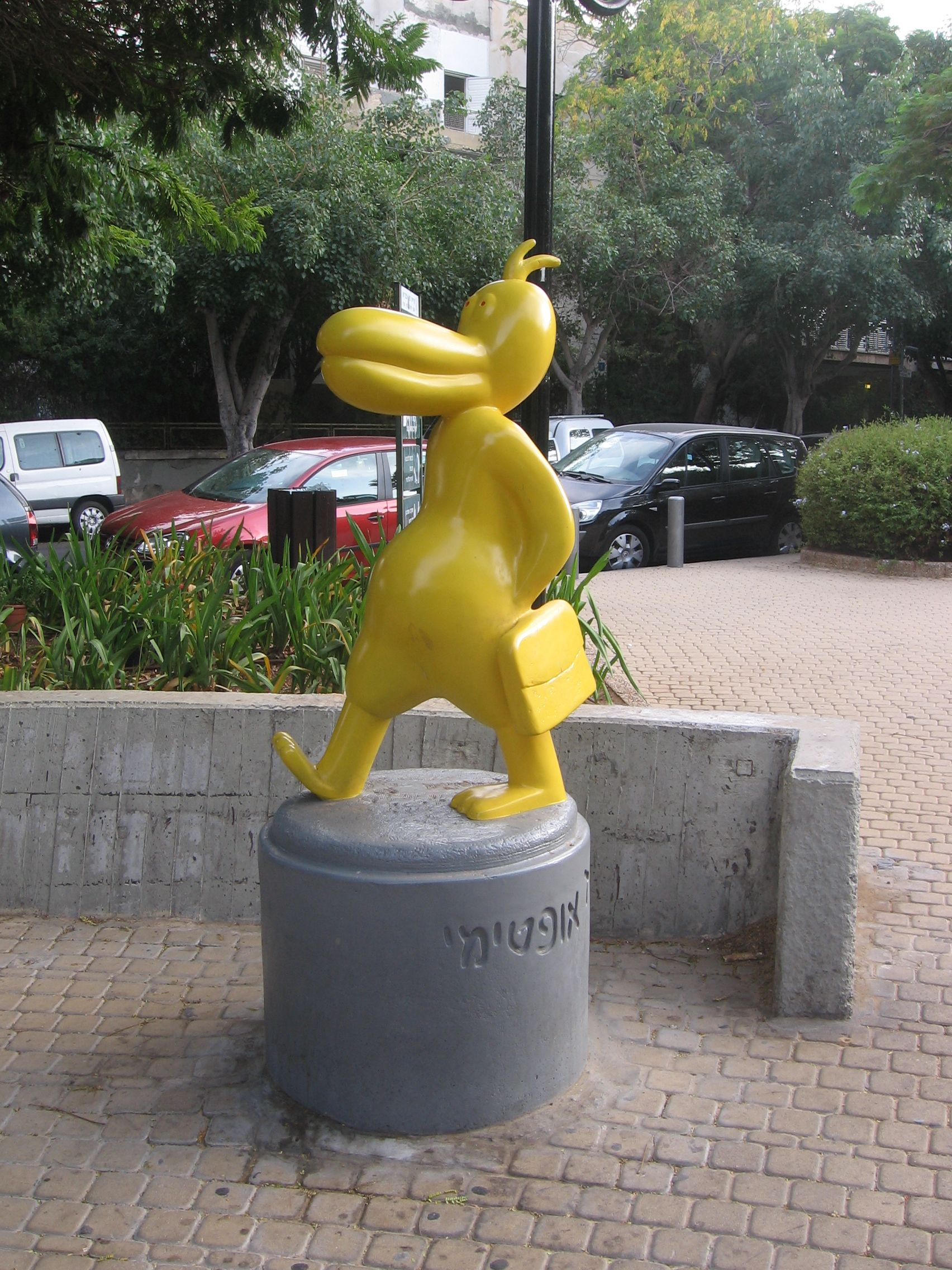 Sculpture of Dudu Geva's duck in Masaryk square in Tel Aviv.